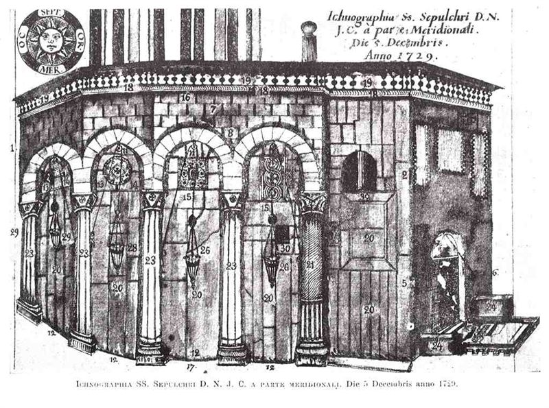 Aedicula of The Tomb of Jesus at The Holy Sepulchre; 1729